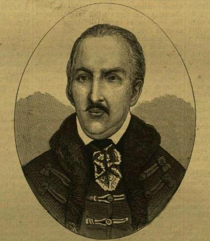 Portrait of Pál Böszörményi